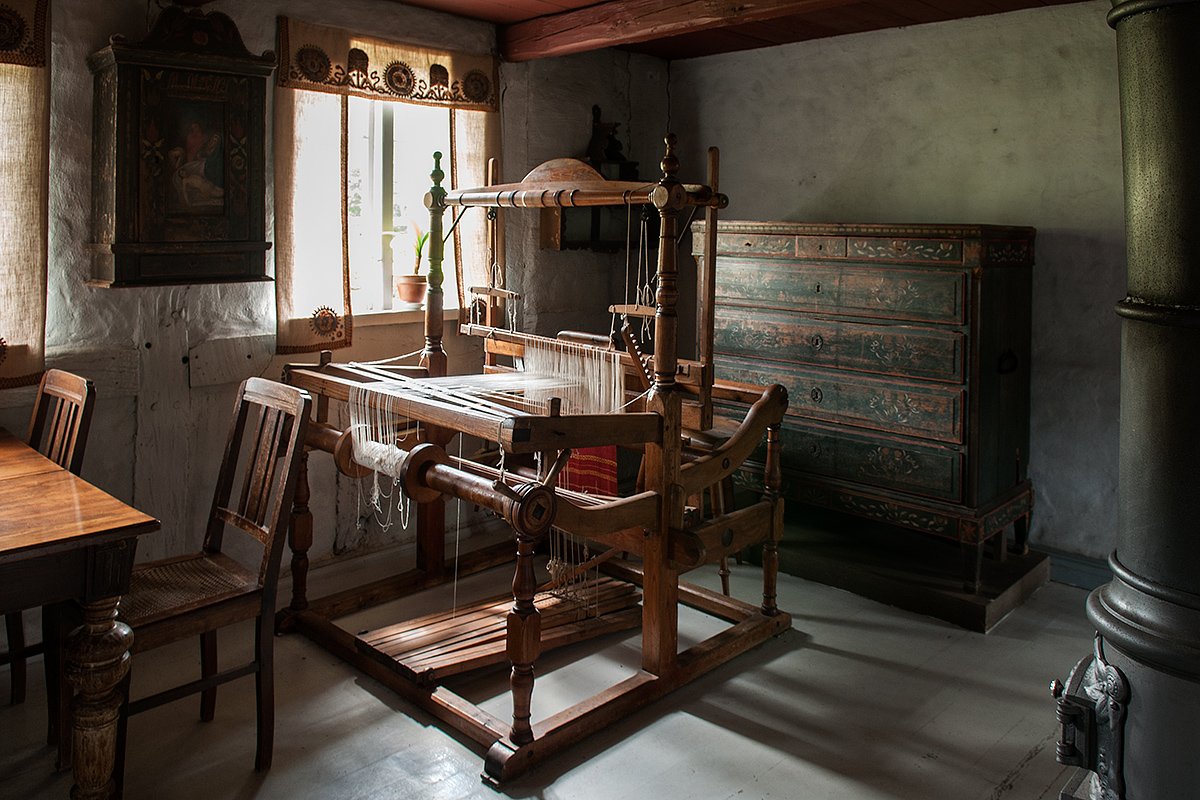 "Hjerl Hede" open-air museum in Denmark